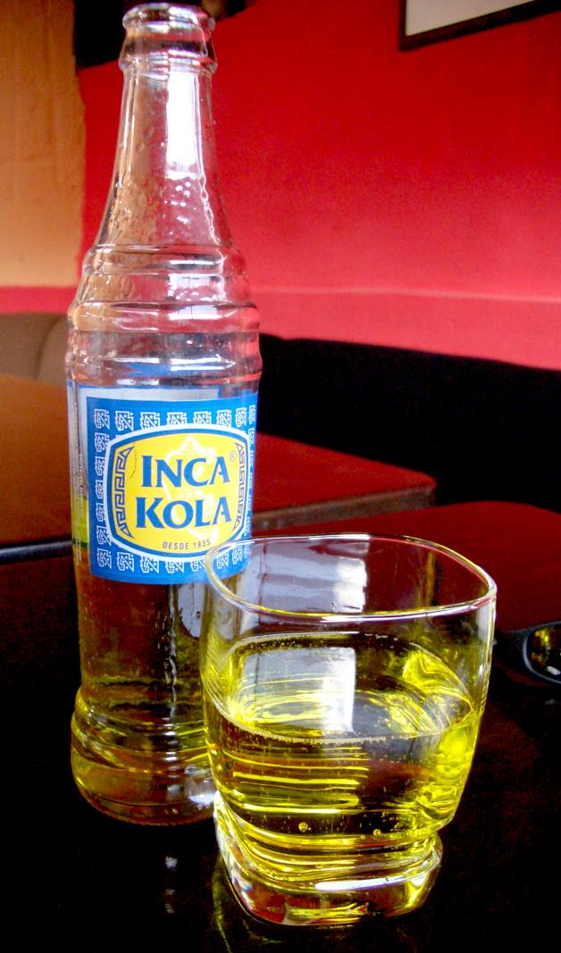 Inca Kola is a popular carbonated soft-drink Peru. It is at least as popular as rival Coca Cola, which despite the similar sounding name it bears no similarity. Inca Kola's colour and flavour is in part derived from high concentrations of tartrazine.